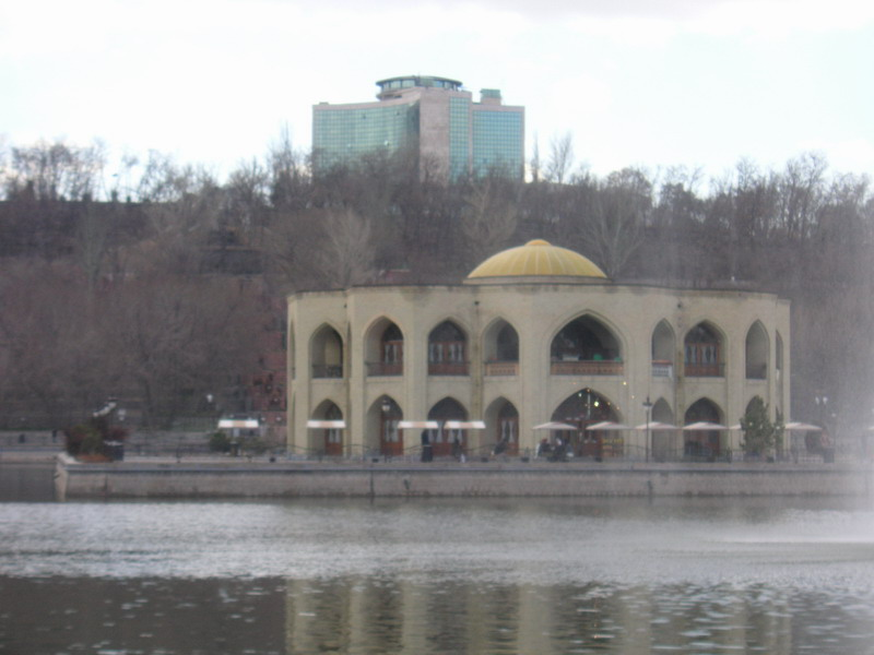 Shah Goli, Tabriz, at the beginning of Spring, the tower in the back is Hotel Pars Building